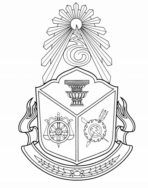 ตราสัญลักษณ์ ปปช